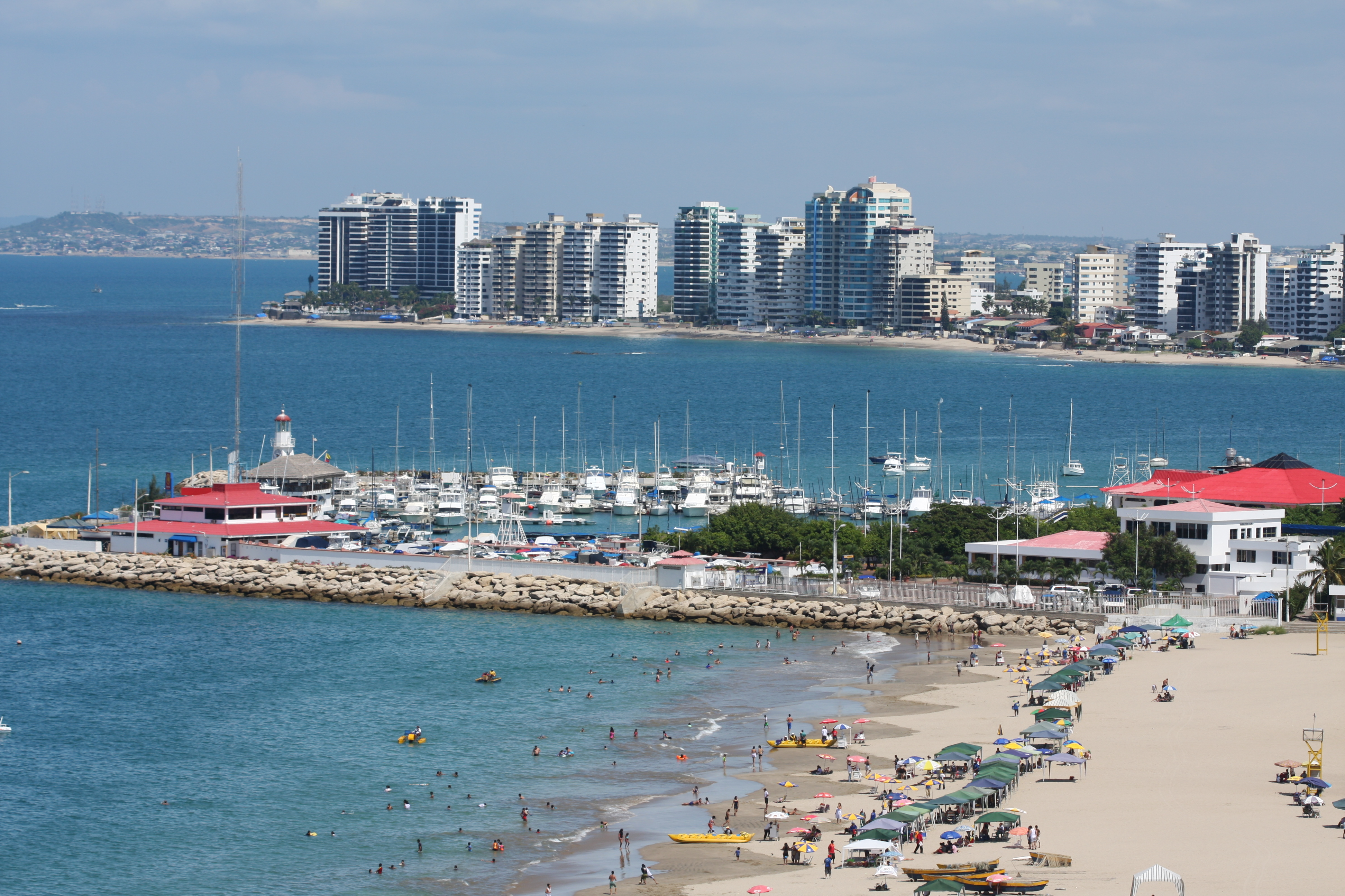 a far off look at the beach of salinas in ecuador south america